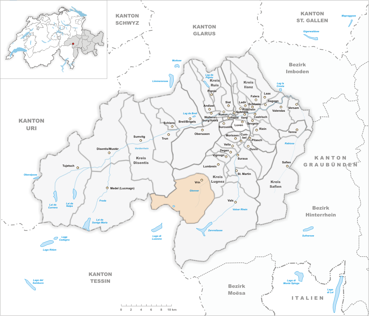 Municipality Vrin